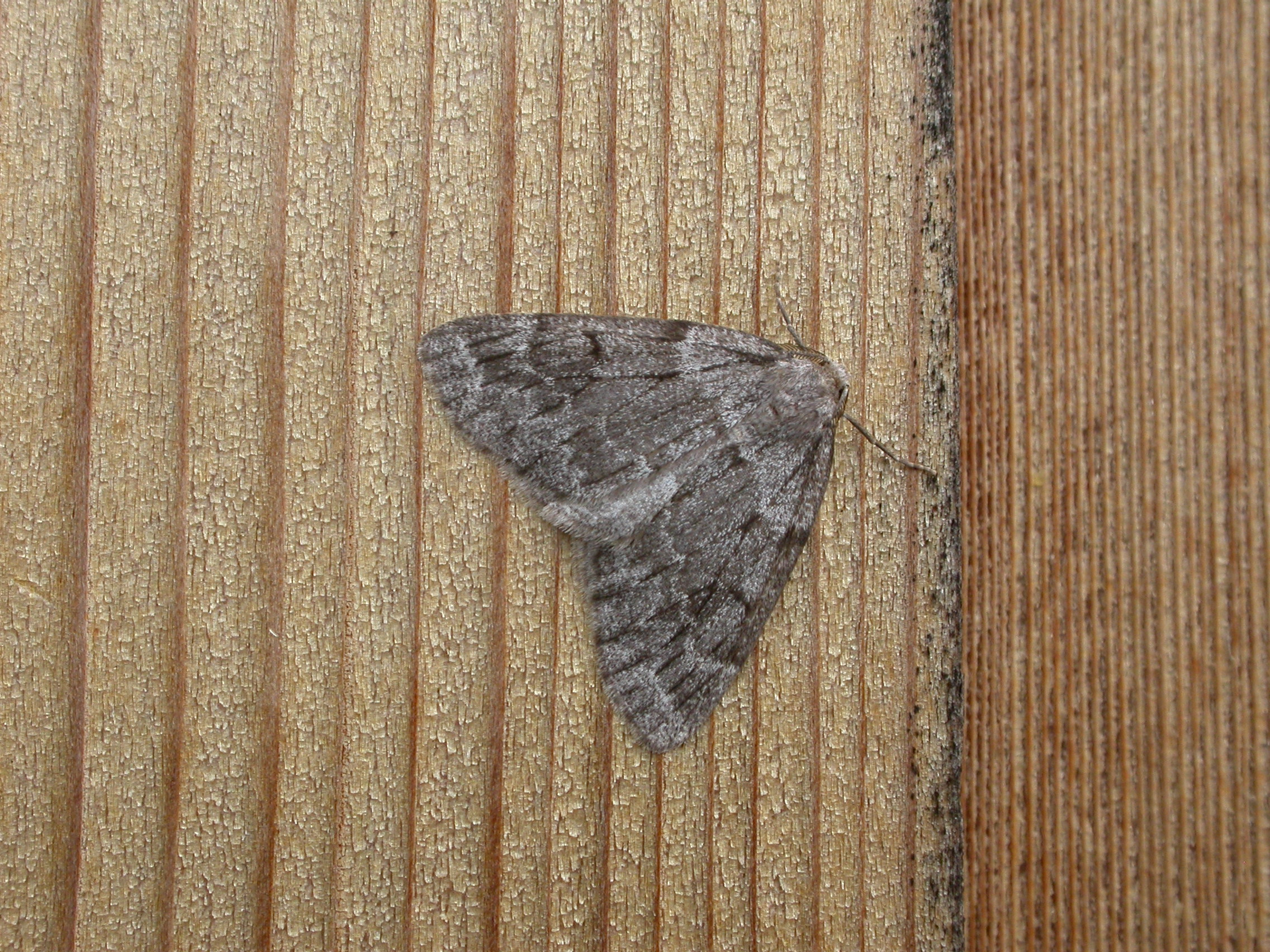 Nepytia umbrosaria (Packard, 1873), Asilomar Conference Grounds, Pacific Grove, CA, USA, 4 December 2012